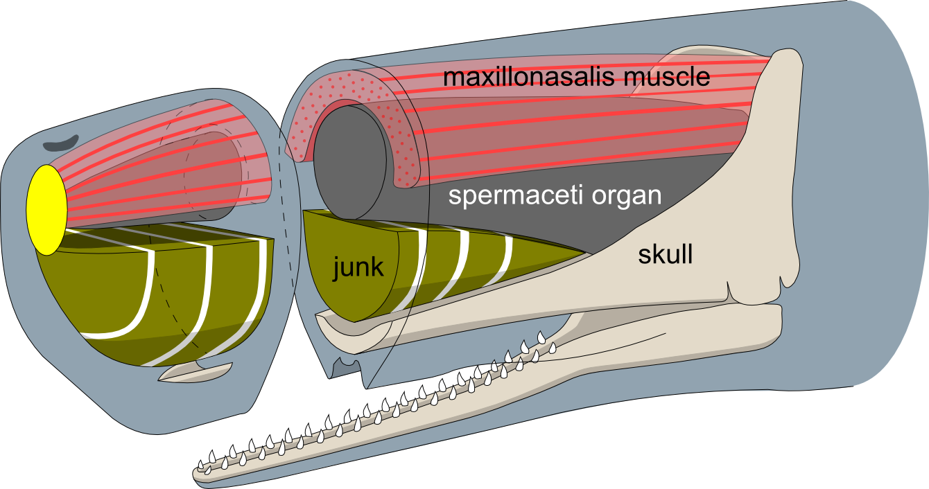 Anatomy of a sperm whale's head, taken in profile